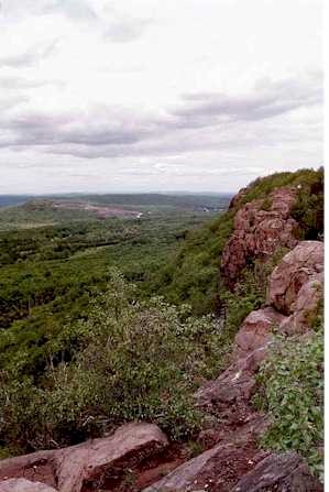 Higby Mountain. Connecticut. In a Nature Conservancy preserve. by Paul Gagnon, 2000.